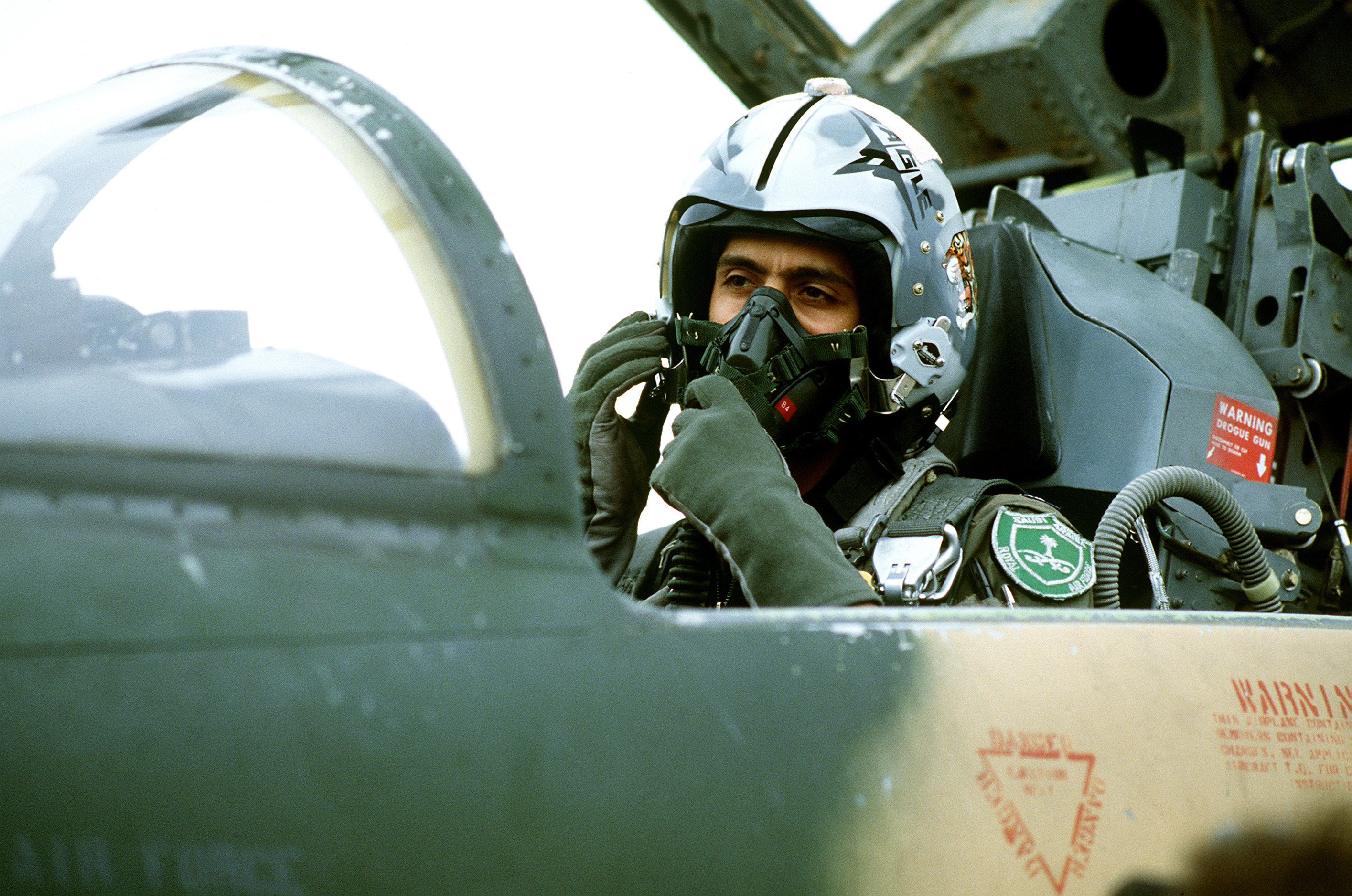 Royal Saudi Arabian Air Force 2LT Al-Shirhri adjusts his oxygen mask while in the cockpit of an F-5 Tiger II aircraft prior to flying a training mission. Location: WILLIAMS AIR FORCE BASE. VIRIN: DF-ST-83-09625